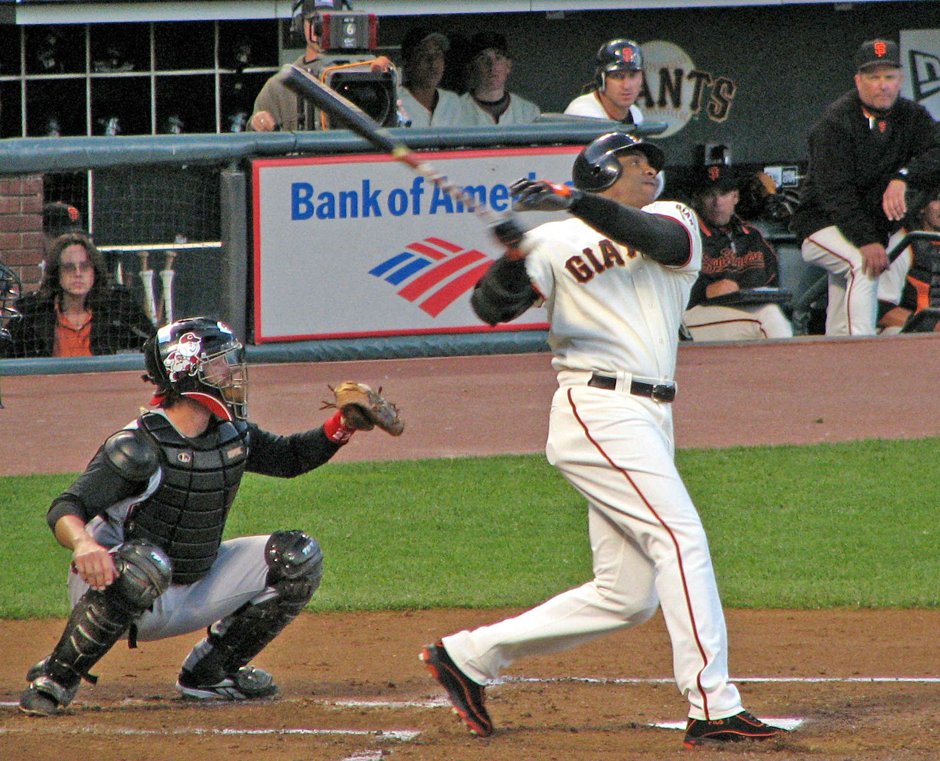 Barry Bonds in action